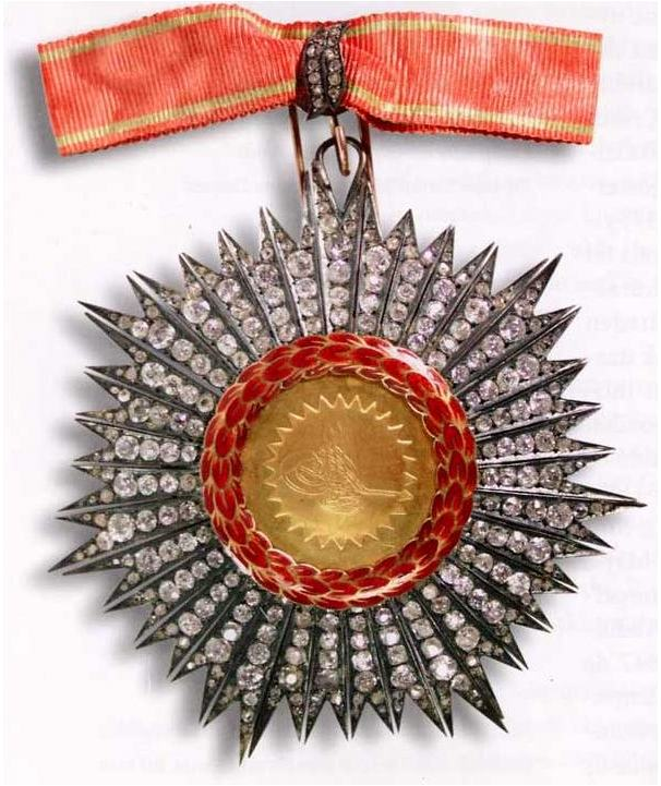 Order of Distinction (Nişan-i Imtiyaz) of the Ottoman Empire.